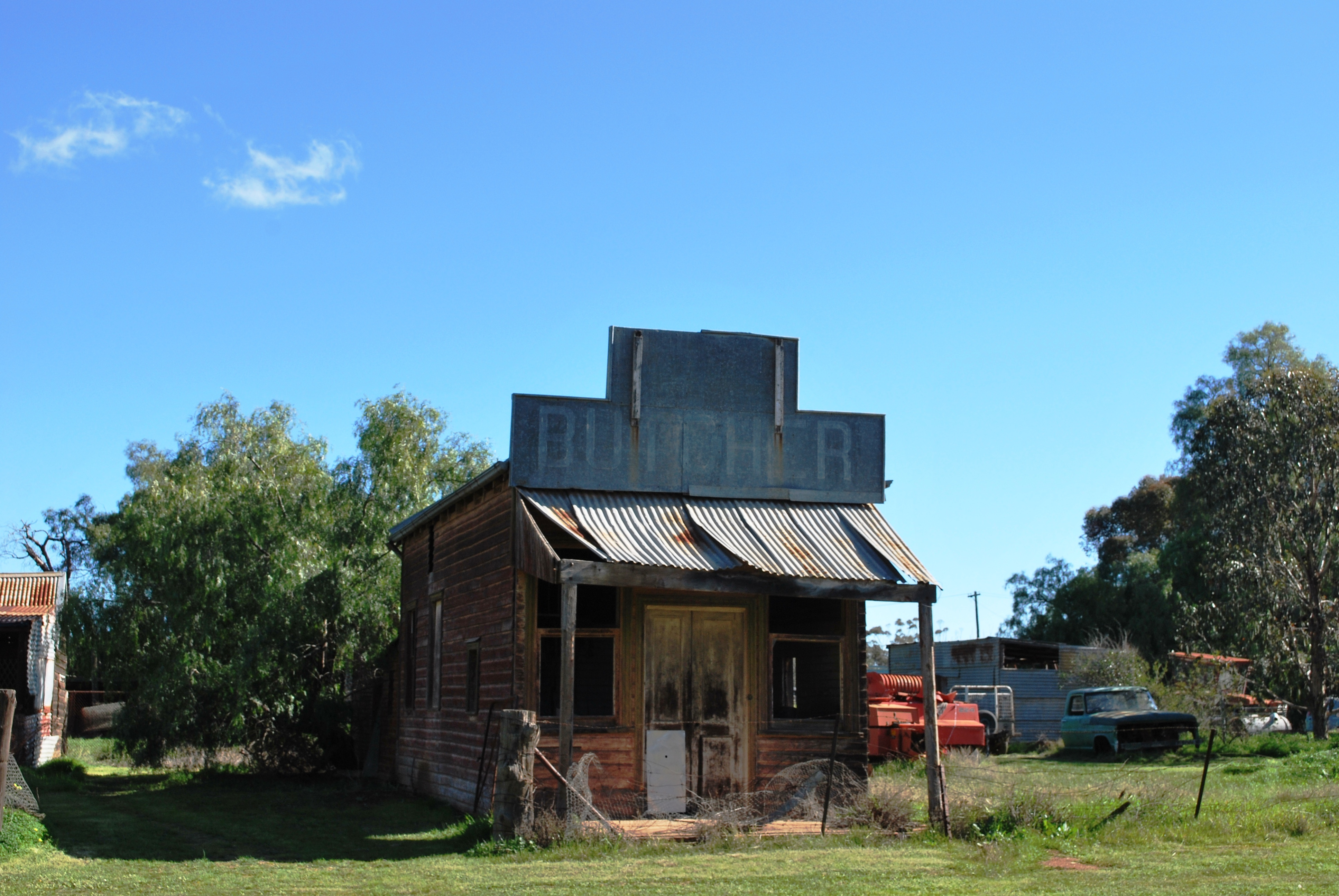 Derelict butcher shop in Daysdale, Victoria